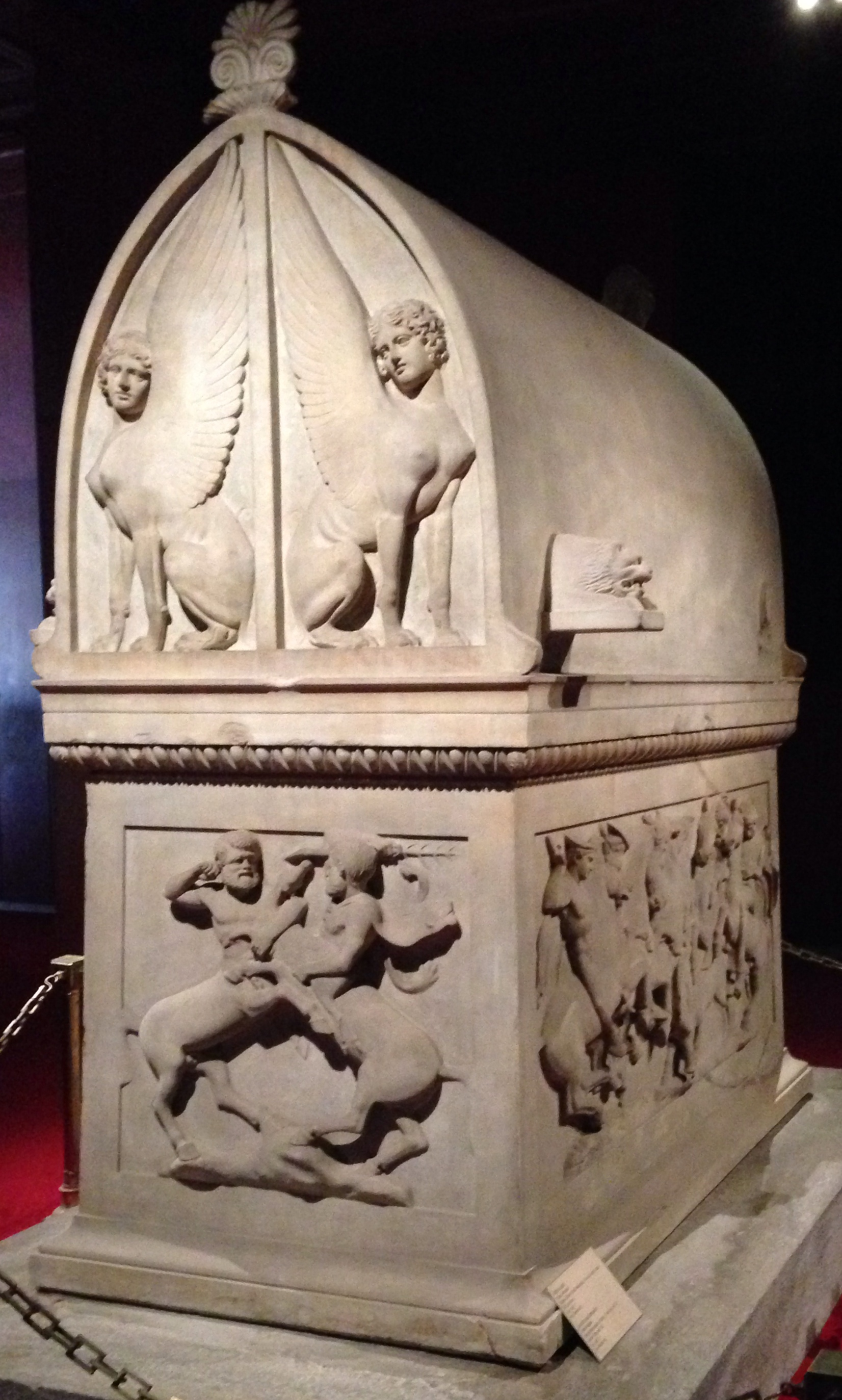 Lycian sarcophagus at the Istanbul Archaeological Museums